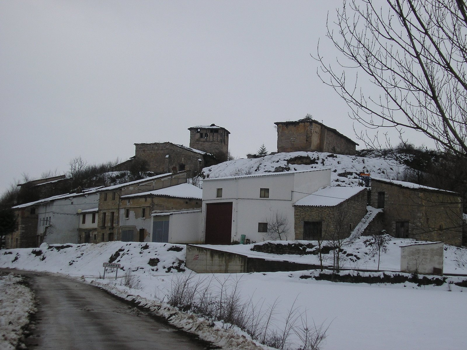 Genereal view of Carrias, a town of Burgos, Spain